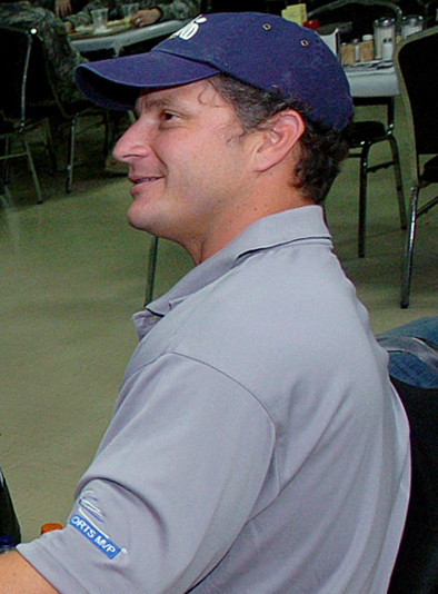 Darren Bragg, a retired Major League Baseball player, at Camp As Sayliyah in Qatar on Sept. 27, 2007.